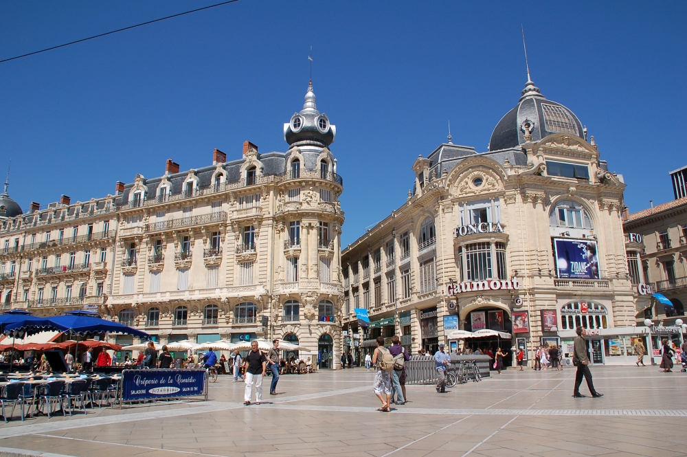 Place de la Comédie, Montpellier, Languedoc-Roussillon, France